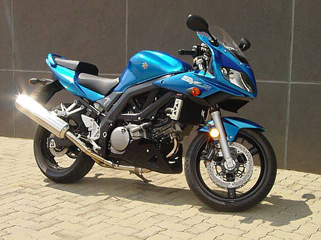 Photo by me. Gogtjop 16:37, 4 April 2007 (UTC)